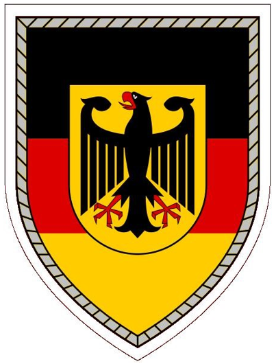 This file shows the coat of arms of Kommando Territoriale Aufgaben der Bundeswehr (KdoTerrAufgBw) of the Bundeswehr, the German Federal Defence Force. → more → help on abbreviations